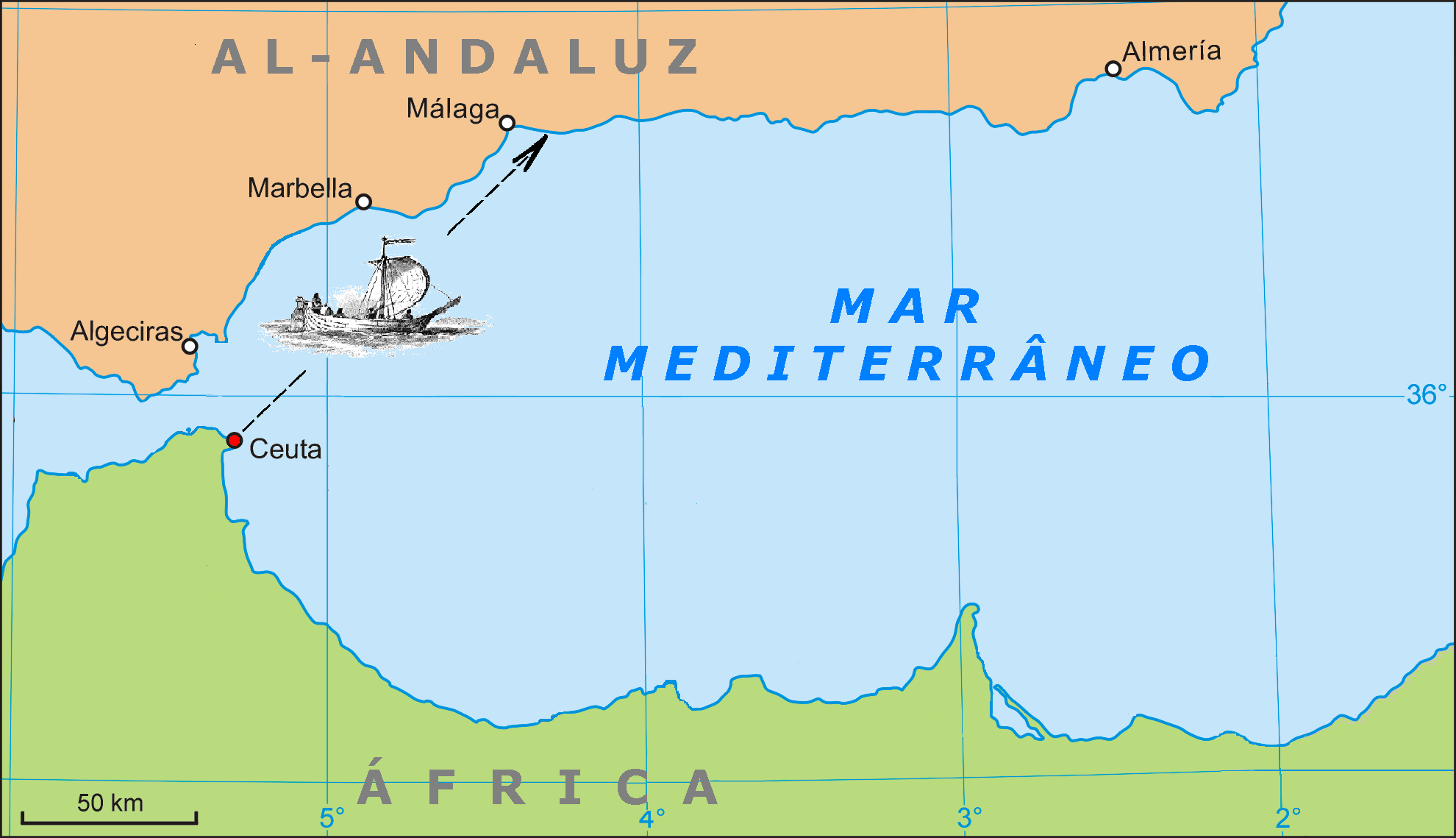 Abd ar-Rahman landed at Almuñécar in al-Andalus, to the east of Málaga, in September 755.